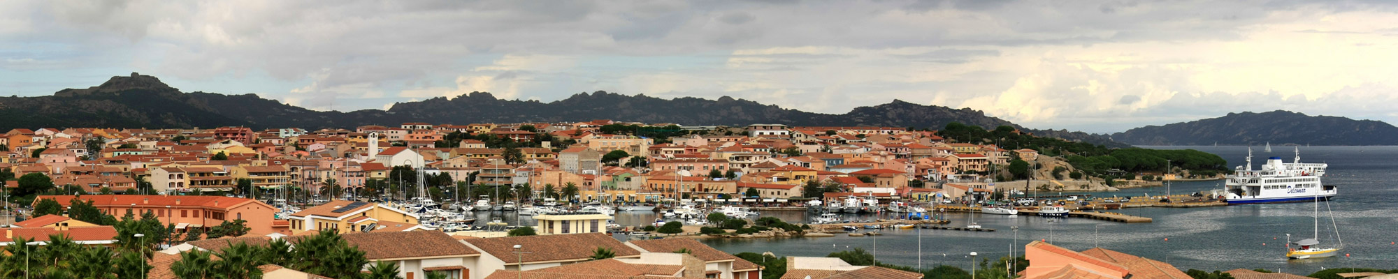 Panorama of Palau, Sardinia